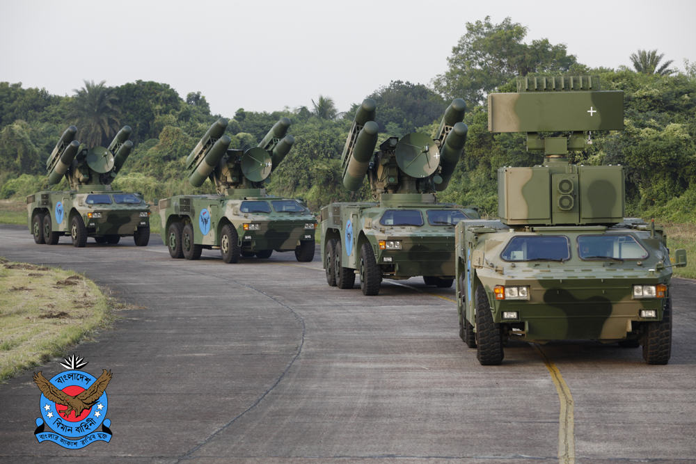 Surface-to-air missiles of Bangladesh Air Force: FM-90